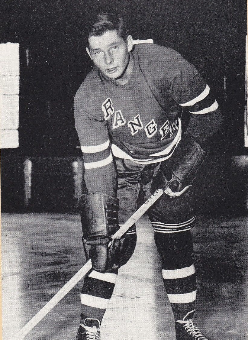 Pentti Lund playing for the New York Rangers 1949-1950